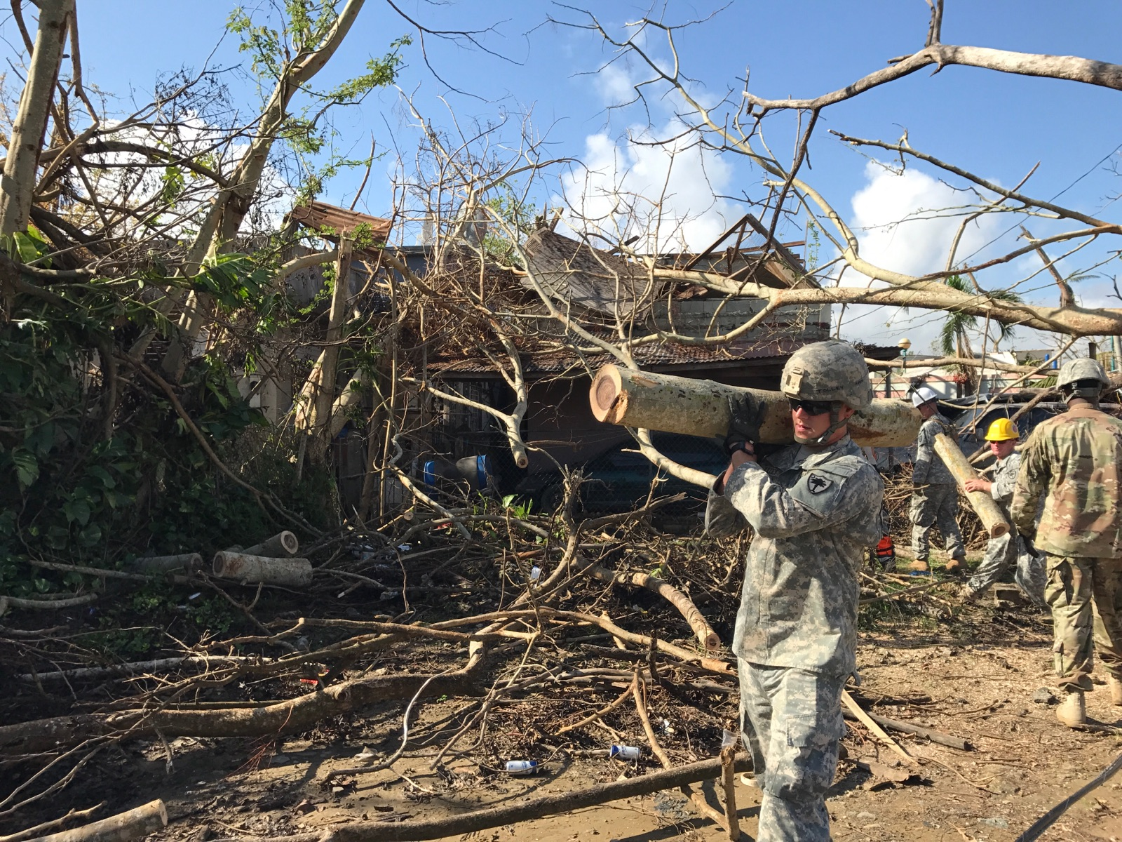 U.S. National Guard Soldiers from the South Carolina National Guard's 122nd and 178th Engineer Battalions arrive in Caguas, Puerto Rico to begin clearing debris following the devastation caused by Hurricane Maria, Oct. 7, 2017. More than 150 South Carolina National Guard Engineer Soldiers are on the ground assisting the multi-state effort to clear access routes to deliver supplies to areas cut-off from downed trees and debris. (U.S. Army photo by Capt. Tammy Muckenfuss)